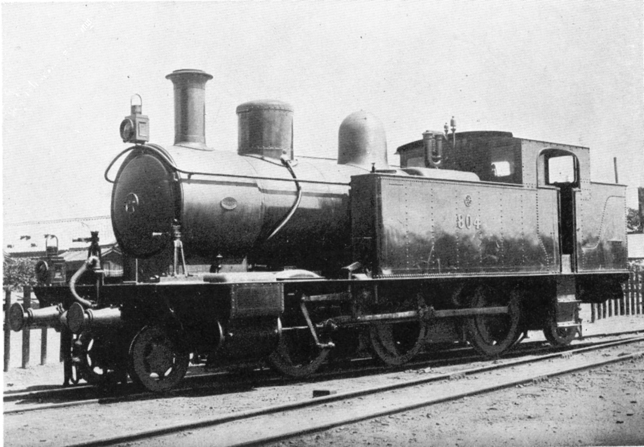 Japan Government Railway type 3200 steam locomotive